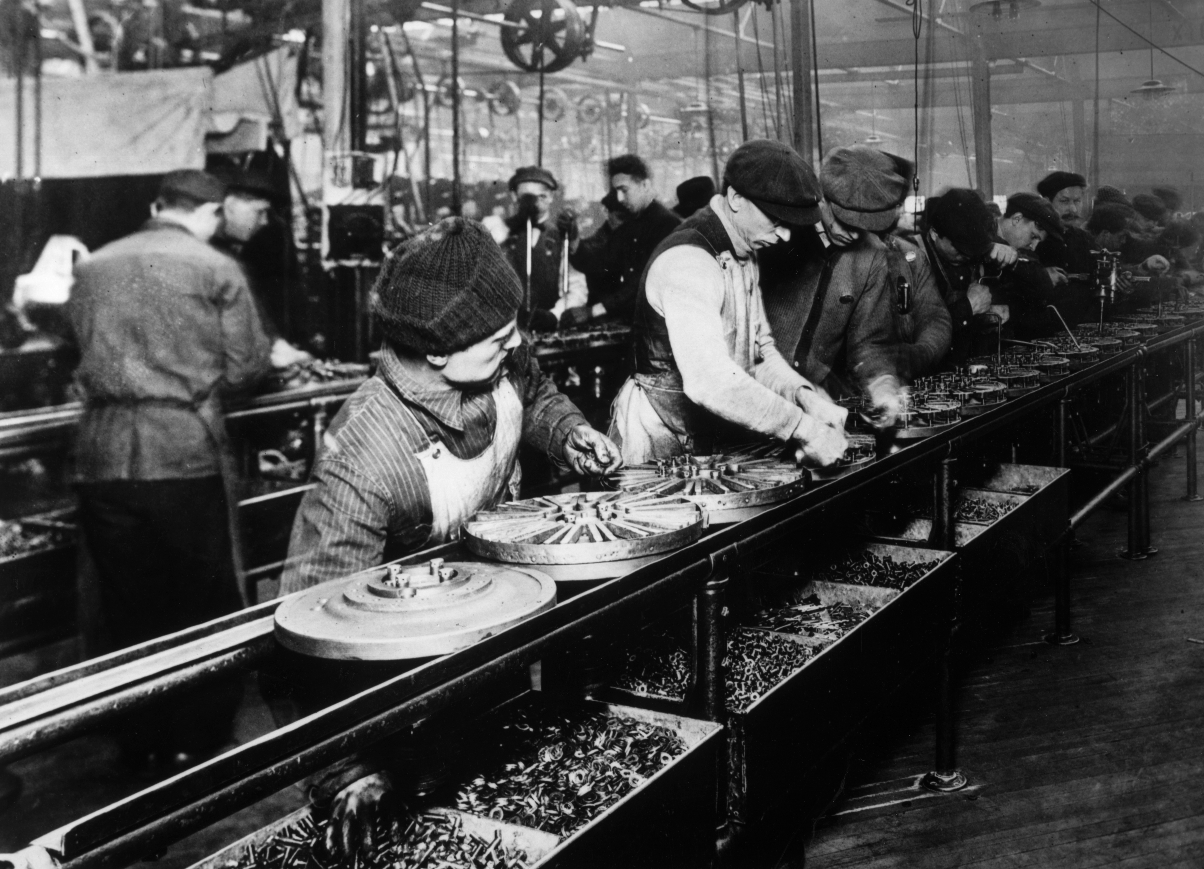 "Workers on the first moving assembly line put together magnetos and flywheels for 1913 Ford autos" Highland Park, Michigan